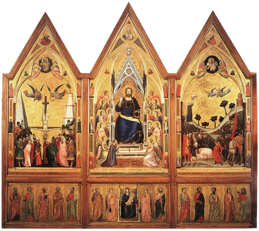 The Stefaneschi Triptych, rear face, created by Giotto di Bondone in 1320 for Cardinal Jacopo